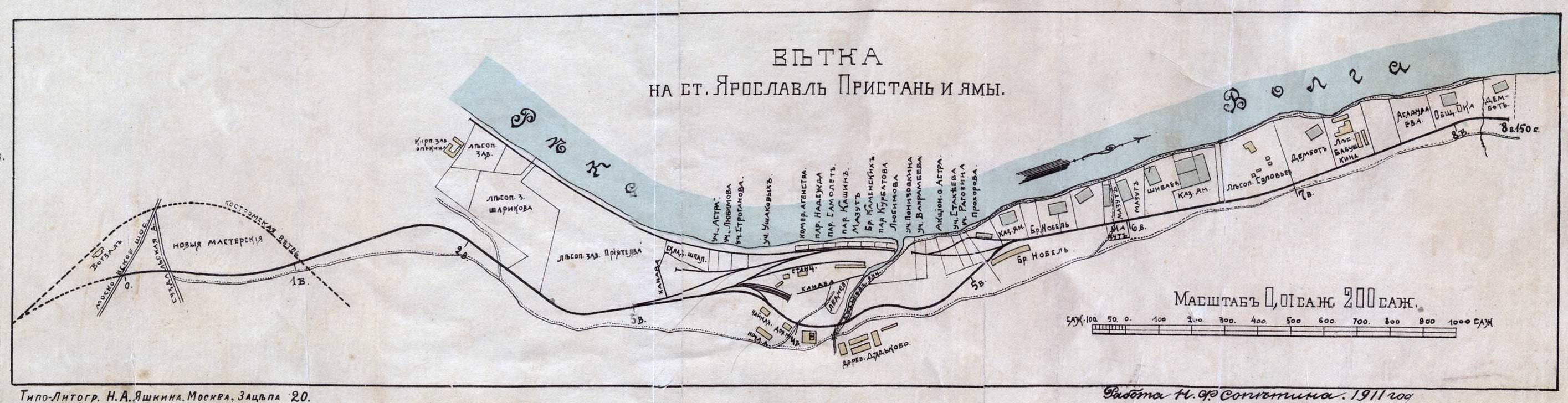 Tenderloin featuring Dyadkovo. "A city of Yaroslavl to the numbering of houses. Edition AJ Razrodnova" 1911. Scan from the book "History of the provincial city of Yaroslavl"